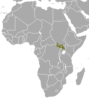 Dusky-footed Elephant Shrew (Elephantulus fuscipes) range